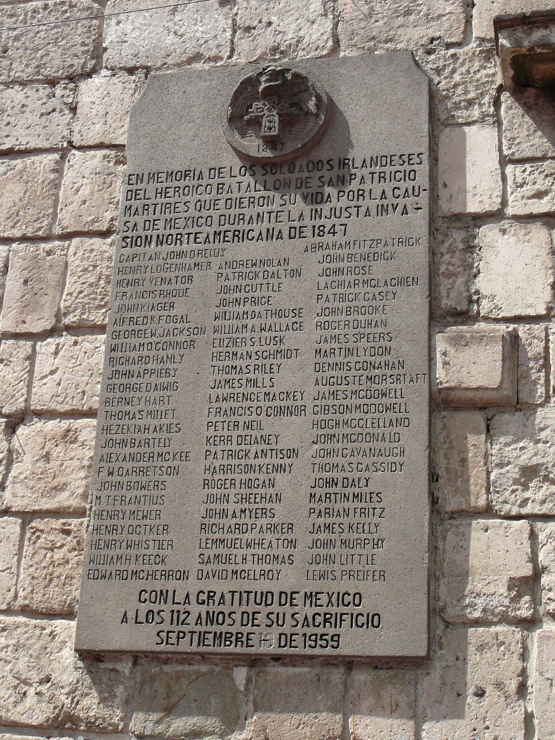 Commemoration plaque to the Battalion San Patricio, Placa en honor a los soldados ilrandeses, which fought on the side of Mexico during the unjust American invasion of Mexico 1846-48. It lists 71 names of those captured, killed or executed by the Americans in 1847. In all, 50 Saint Patrick's battalion members were officially executed by the U.S. Army. Collectively, this was the largest mass execution in United States history. The plaque is displayed on a wall of the Plaza San Jacinto, San Ángel quarter, Mexico city and was erected in 1959 in gratitude by the Mexican state.